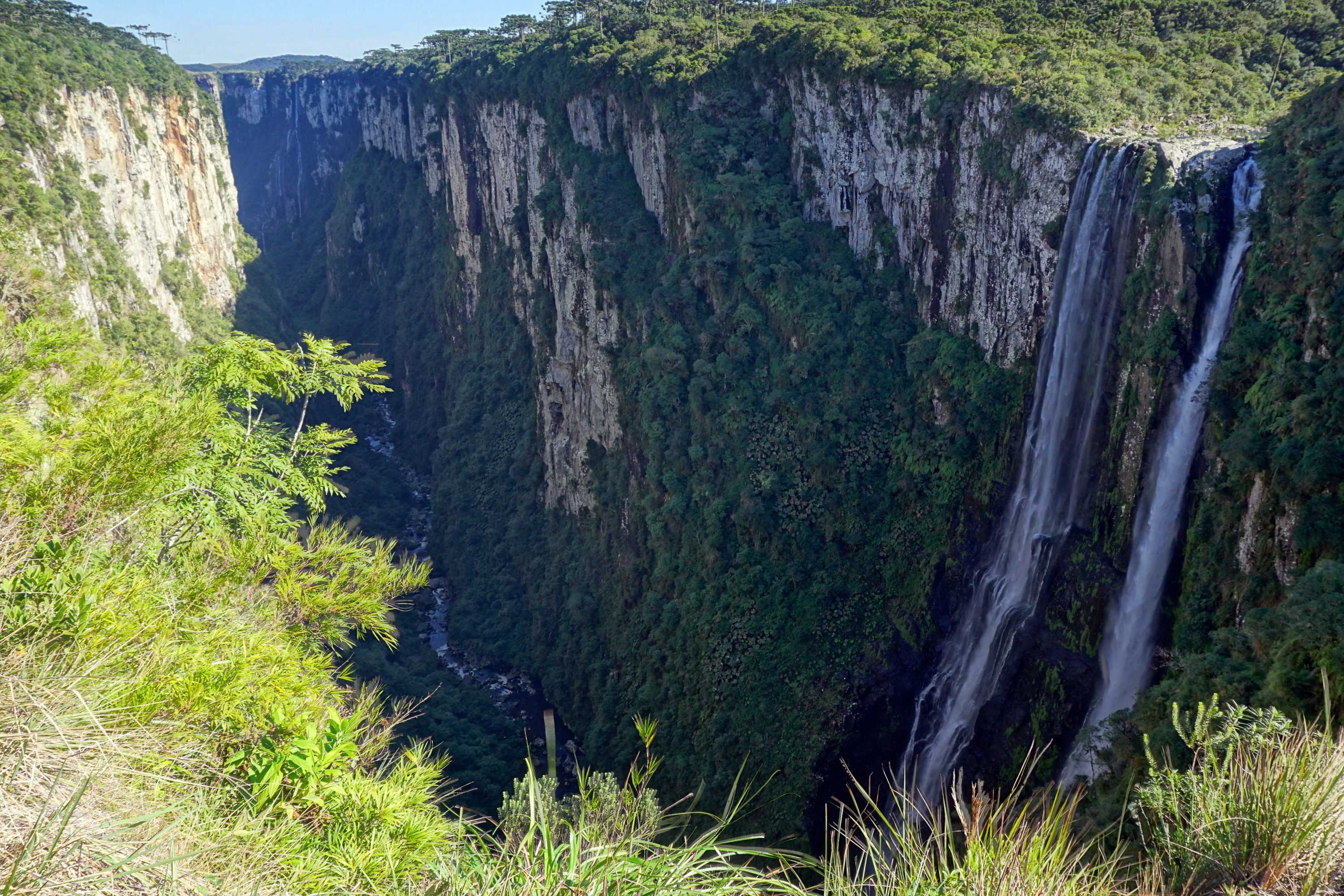 The Itaimbezinho is a canyon in the state of Rio Grande do Sul, Brazil, about 170 km from Porto Alegre, near the border of the state of Santa Catarina. It is part of the Aparados da Serra National Park.